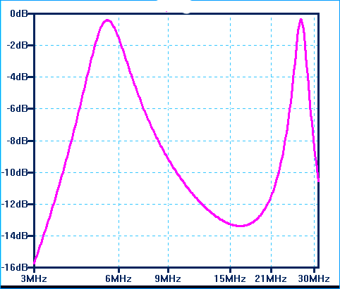 Showing that the Z match tuner has two resonances, one lower and one higher, covering a greater frequency range.